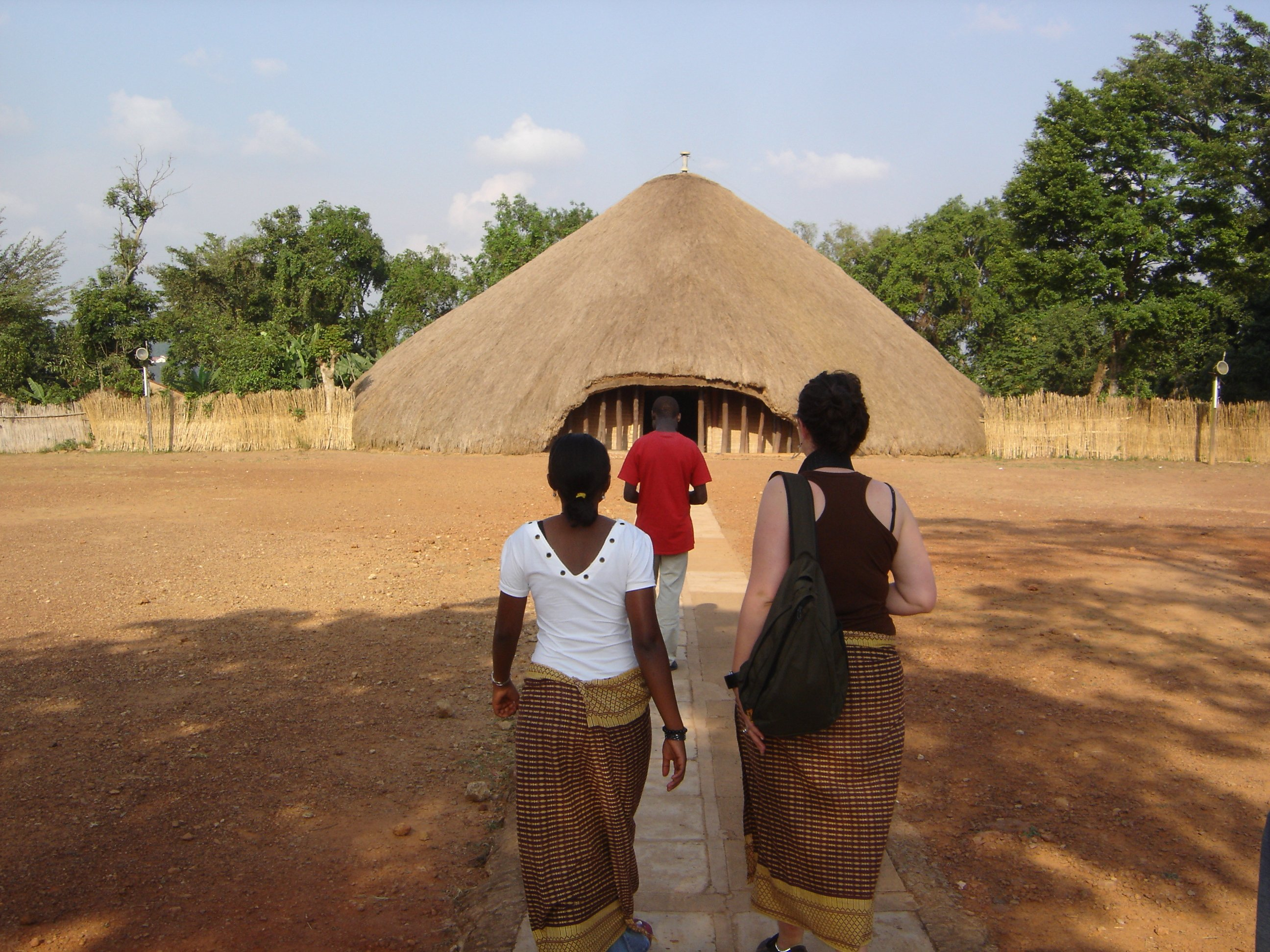 Nicole and her siblings (and friends) took us to the Kasubi tombs, where the old kings of Uganda are buried.